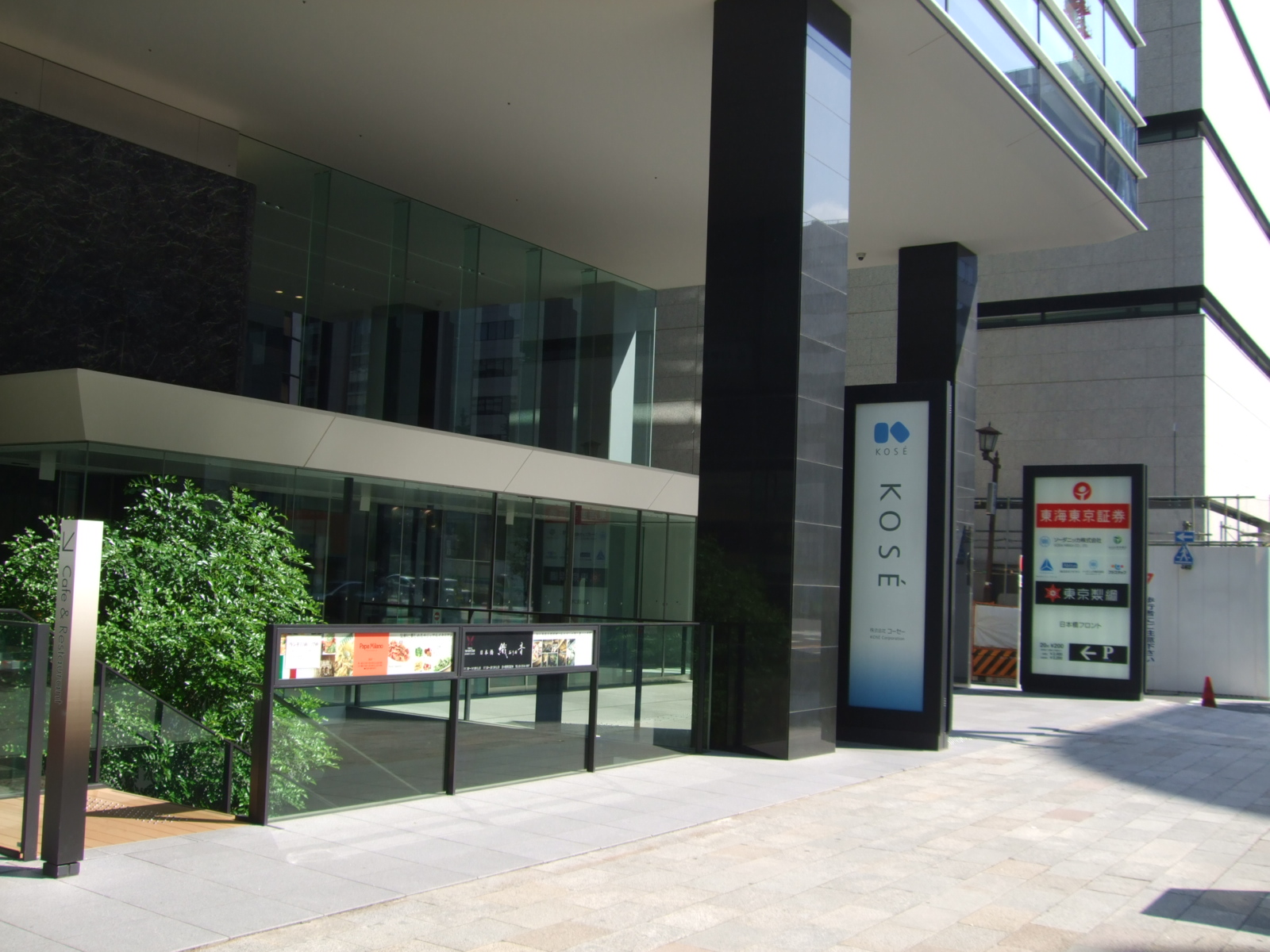 KOSÉ Headquarters in Nihonbashi, Chūō, Tokyo, Japan.